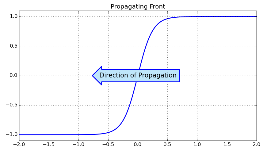 Propagating front profile